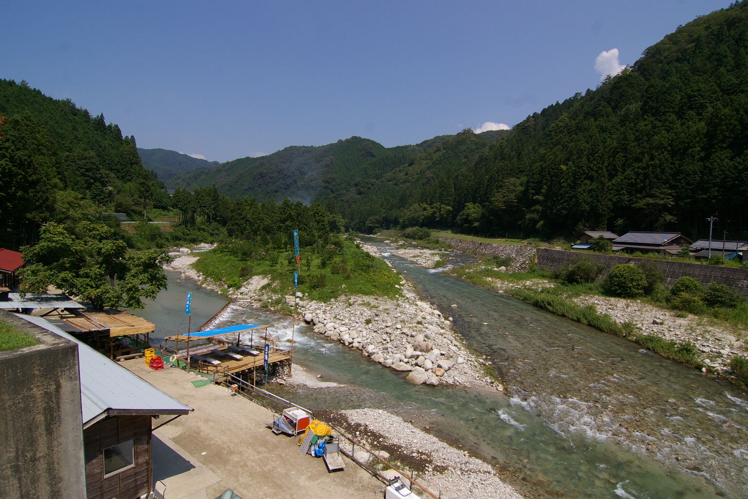 Yana (Kamiyahagi, Ena City, Gifu Pref., Japan)